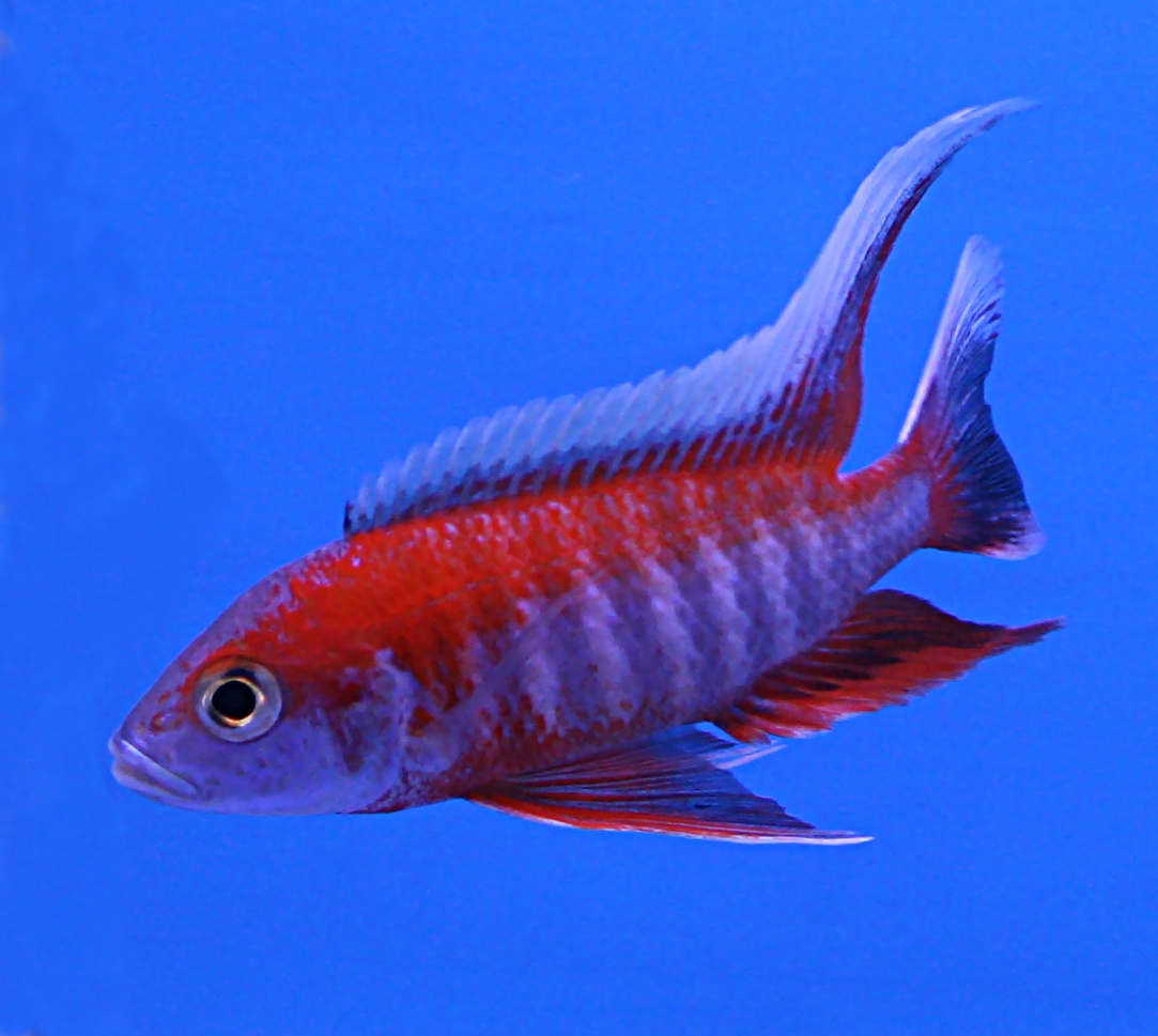 Aulonocara jacobfreibergi "eureka red" from The 6th "Pramong Nomjai Thaituala" Thailand Tropical Fish Competition 2007. (Won 1st prize for Aulonocara jacobfreibergi category)